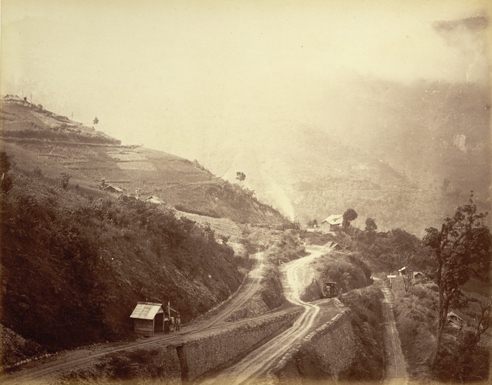 The Himalayas en route to Darjeeling